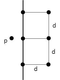 The matching point for the point 'p' should be inside the box size of (d*2d), which includes at most 6 points.